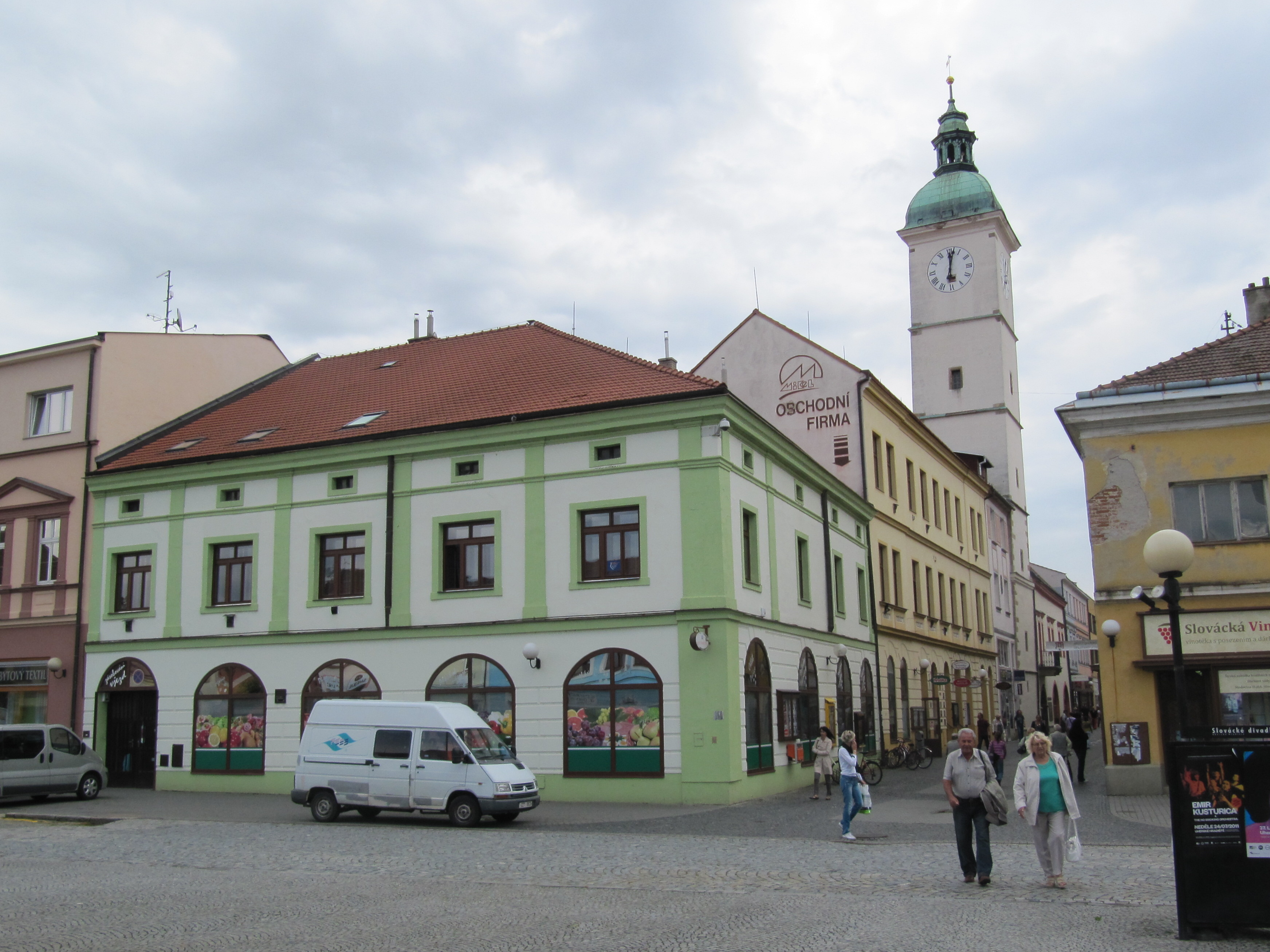 Uherské Hradiště, Czech Republic. Square Mariánské náměstí and street Prostřední, house Nr. 128 and tower of the old town hall.